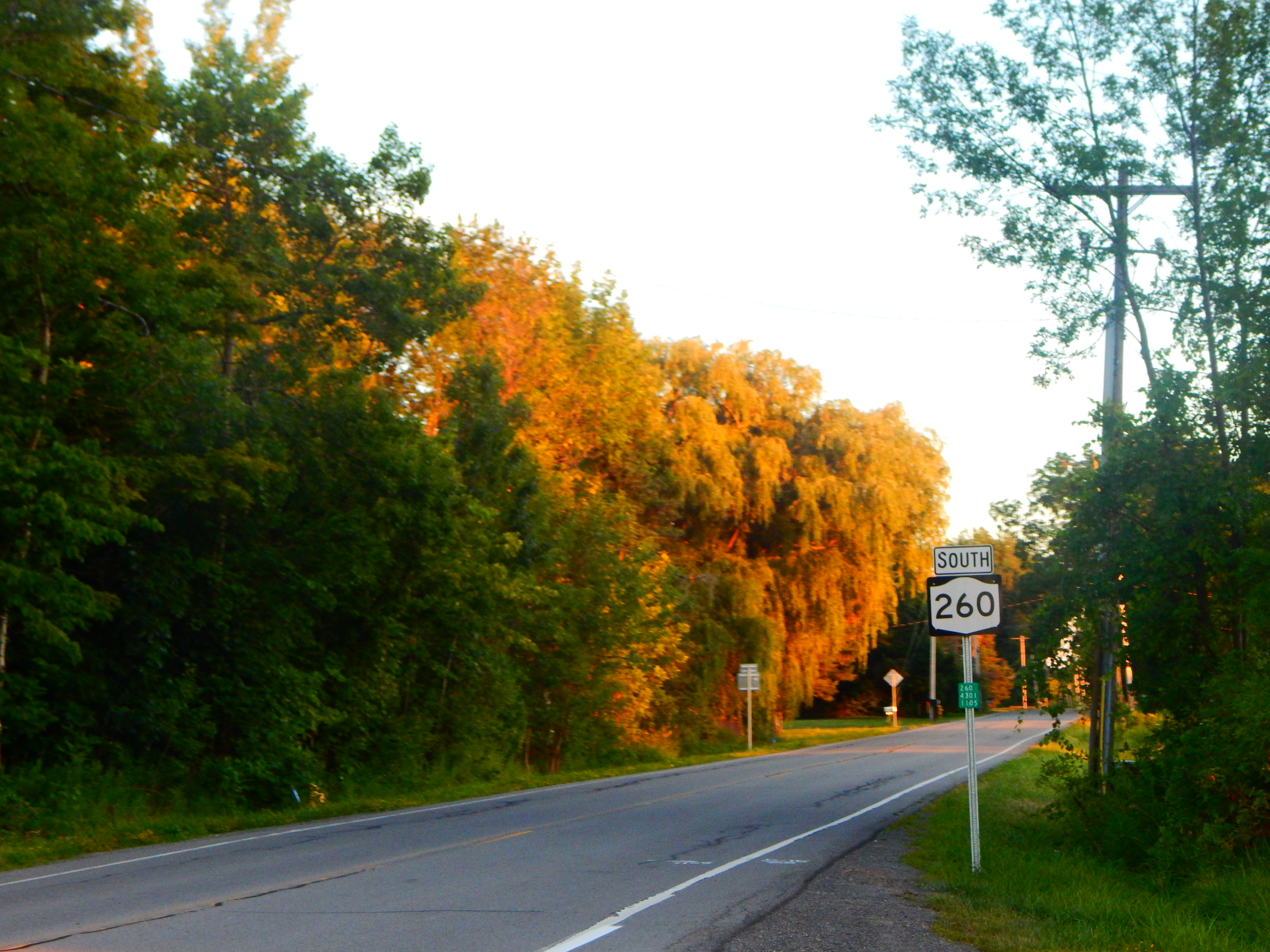 NY 260 heading southbound from the Lake Ontario State Parkway in Hamlin, New York.